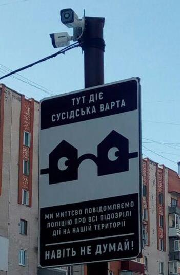 Знак "Сусідська варта" в одному з дворів міста Хмельницький